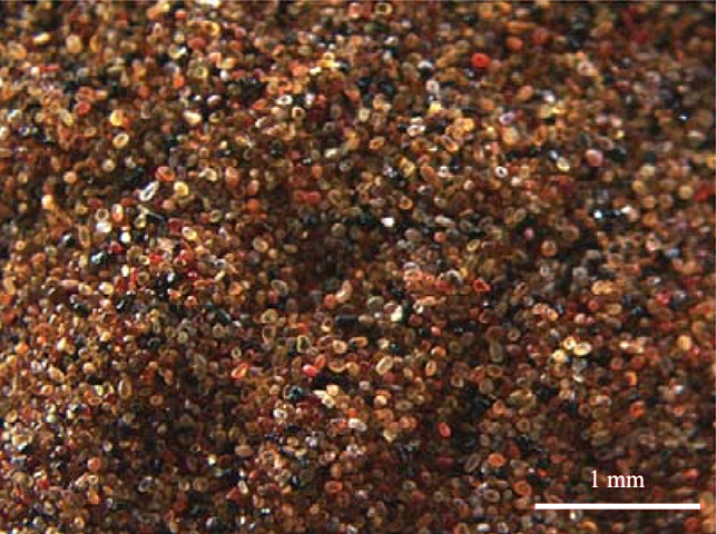 Original figure caption: Optical micrograph of monaziteFurther notes: This fine-grained monazite sand ist described in the source as consisting “of 69.55% monazite, 17.67% zircon and 4.85% ilmenite with the remaining 7.93% consisting of other materials”. Provenance data are not given.